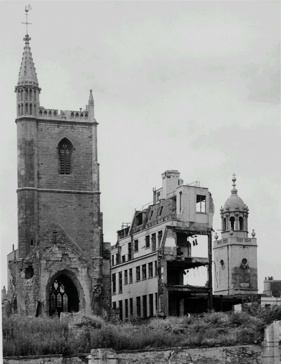 Black and white photograph from c.1940 showing the remains of St Mary le Port church, Bristol, UK, taken from the south east, following the Bristol Blitz bombing raid on the area now known as Castle Park. All that is left of the church is the tower, and nearby bombed buildings can be seen behind. Beyond the bombed buildings can be seen the tower of All Saints' Church.